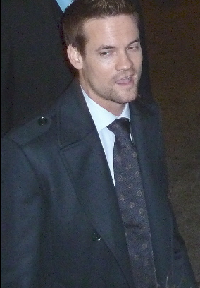 Shane West at the Toronto International Film Festival 2010